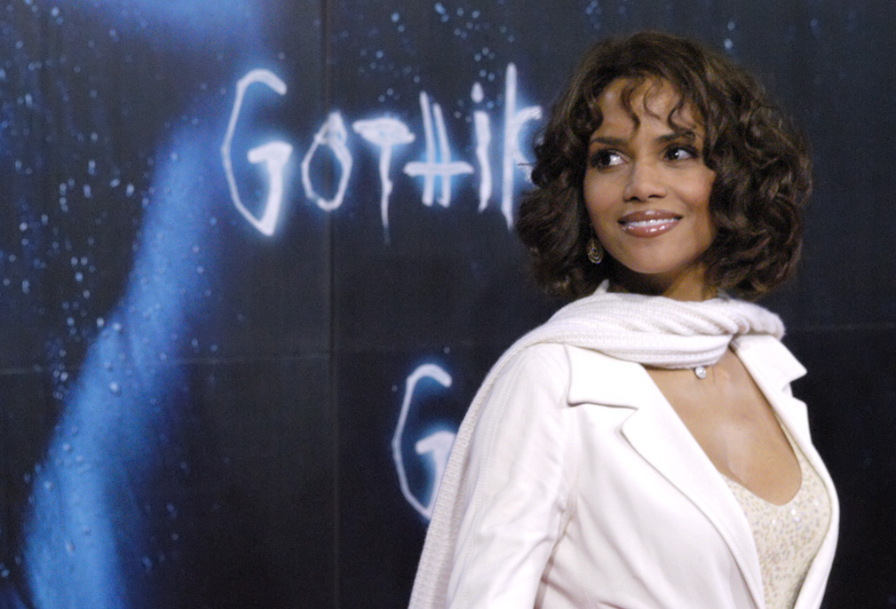 Halle Berry 2004 in Berlin, Germany